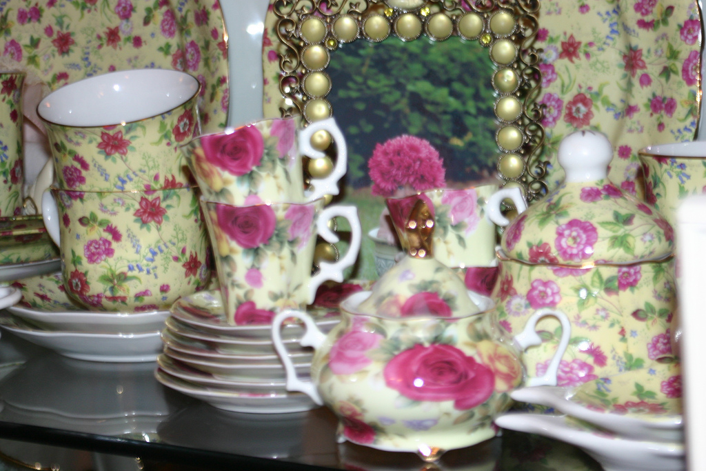 Chintz floral pattern china tea set